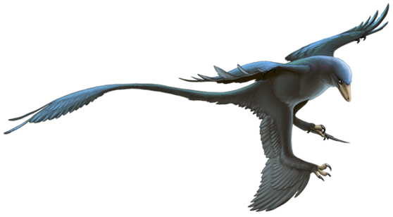 Microraptor